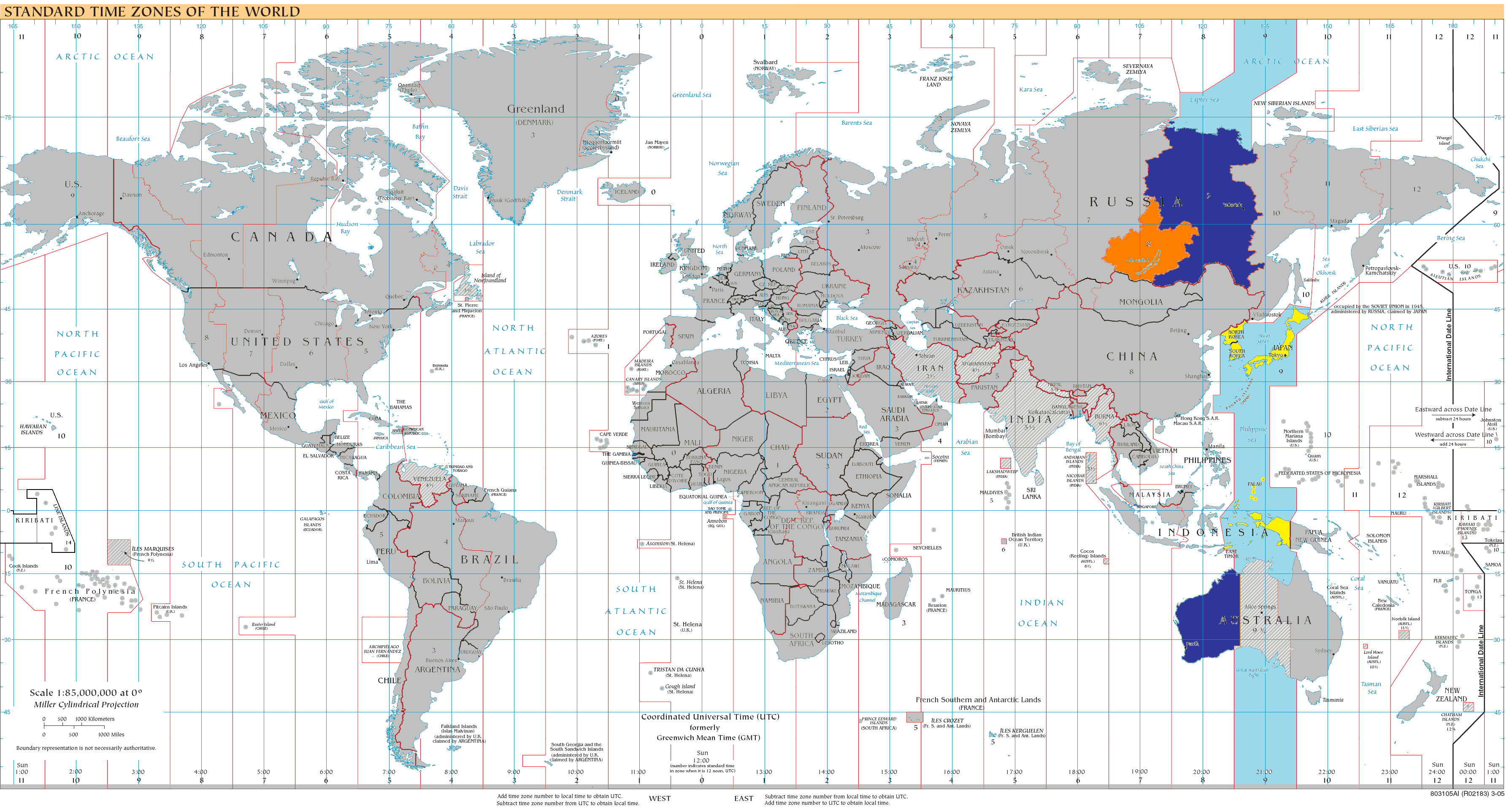 World map of time zones as of 2008, on the Miller Cylindrical Projection and with highlighted UTC+9 zone. Dark Blue - UTC+9 during Northern Winter / Southern Summer Orange - UTC+9 during Northern Summer / Southern Winter Yellow - UTC+9 all year round Light Blue - UTC+9 sea areas